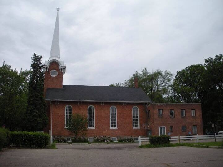 Waterford Village Historic District